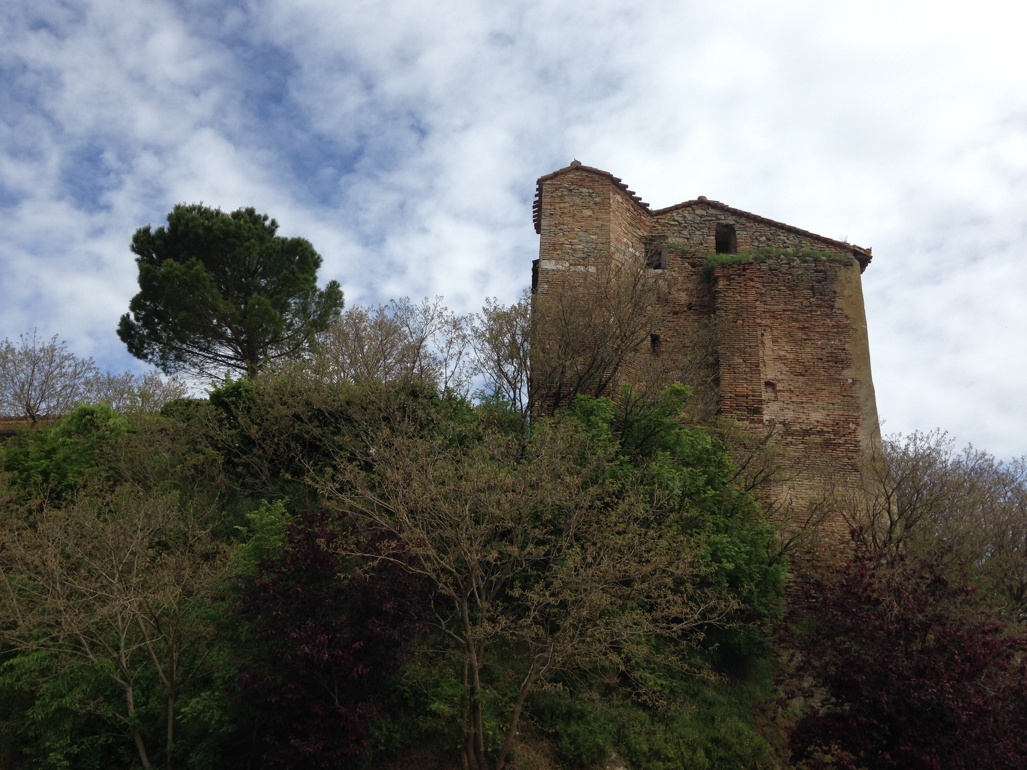 Puylaurens castle, Tarn, France